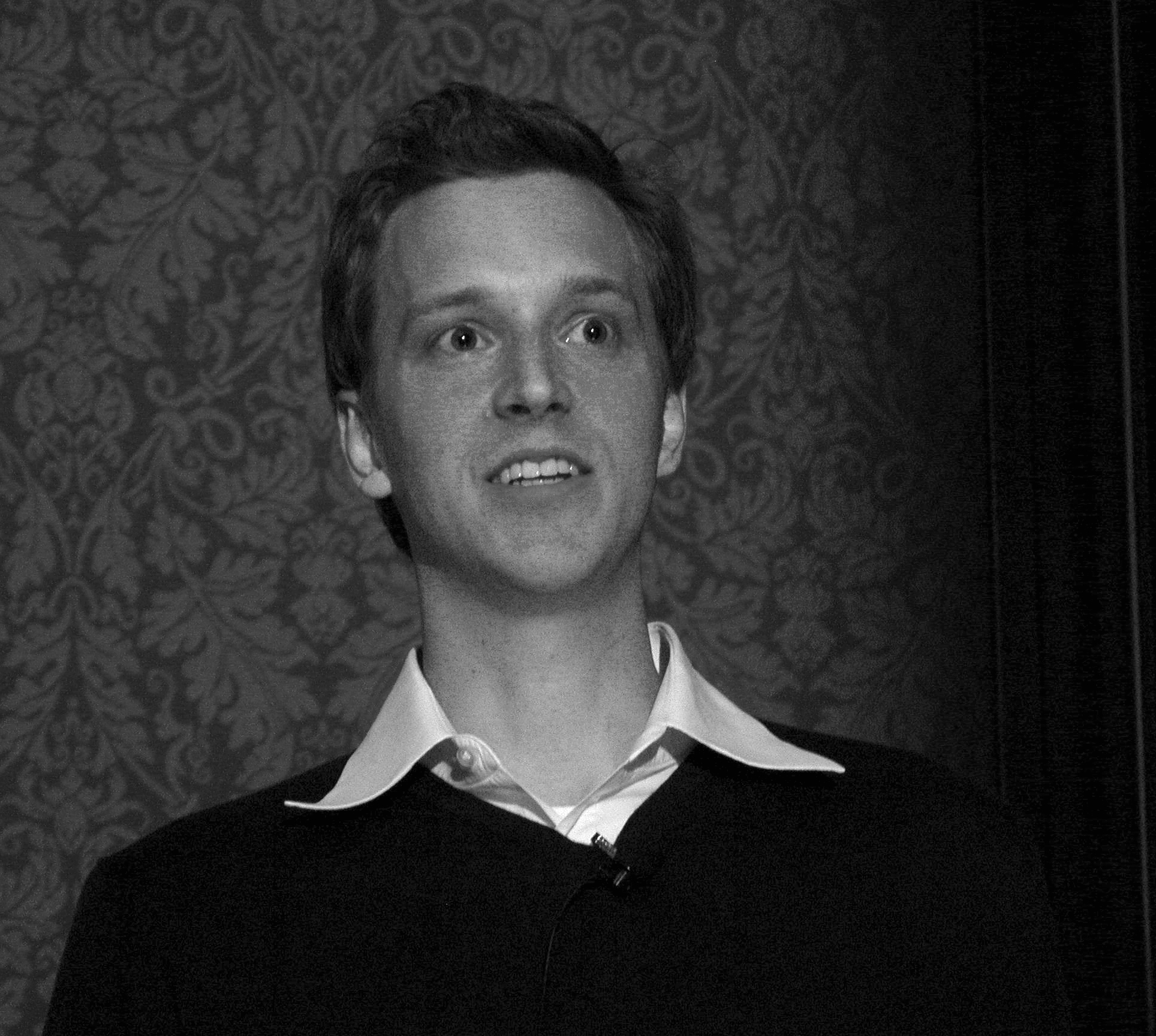 Computer programmer Nat Friedman giving a talk at the Desktop Linux Summit.